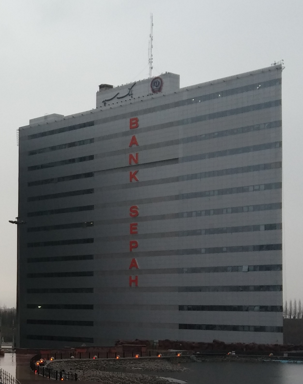 Building Bank Sepah of Iran